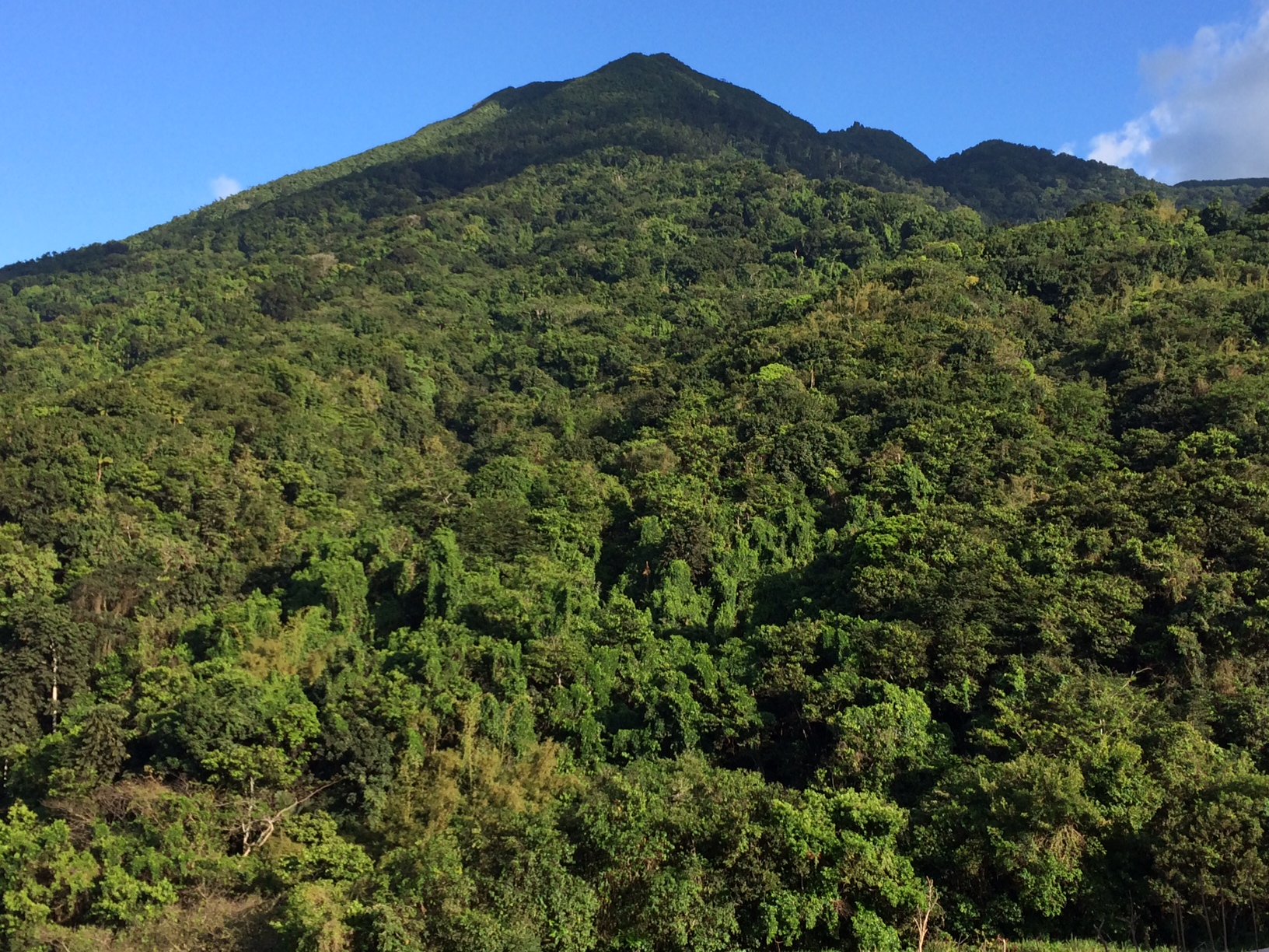 St Kitts' forest